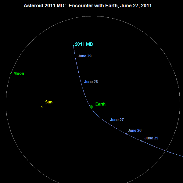 Trajectory of near-Earth asteroid 2011 MD passing Earth about 9.30 EDT on June 27, 2011.